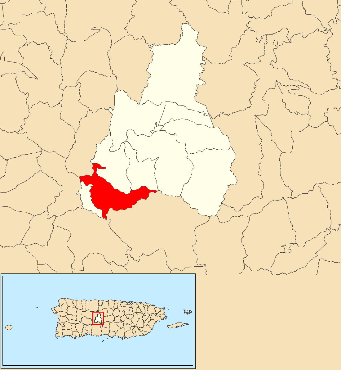 Jauca, Jayuya, Puerto Rico locator map